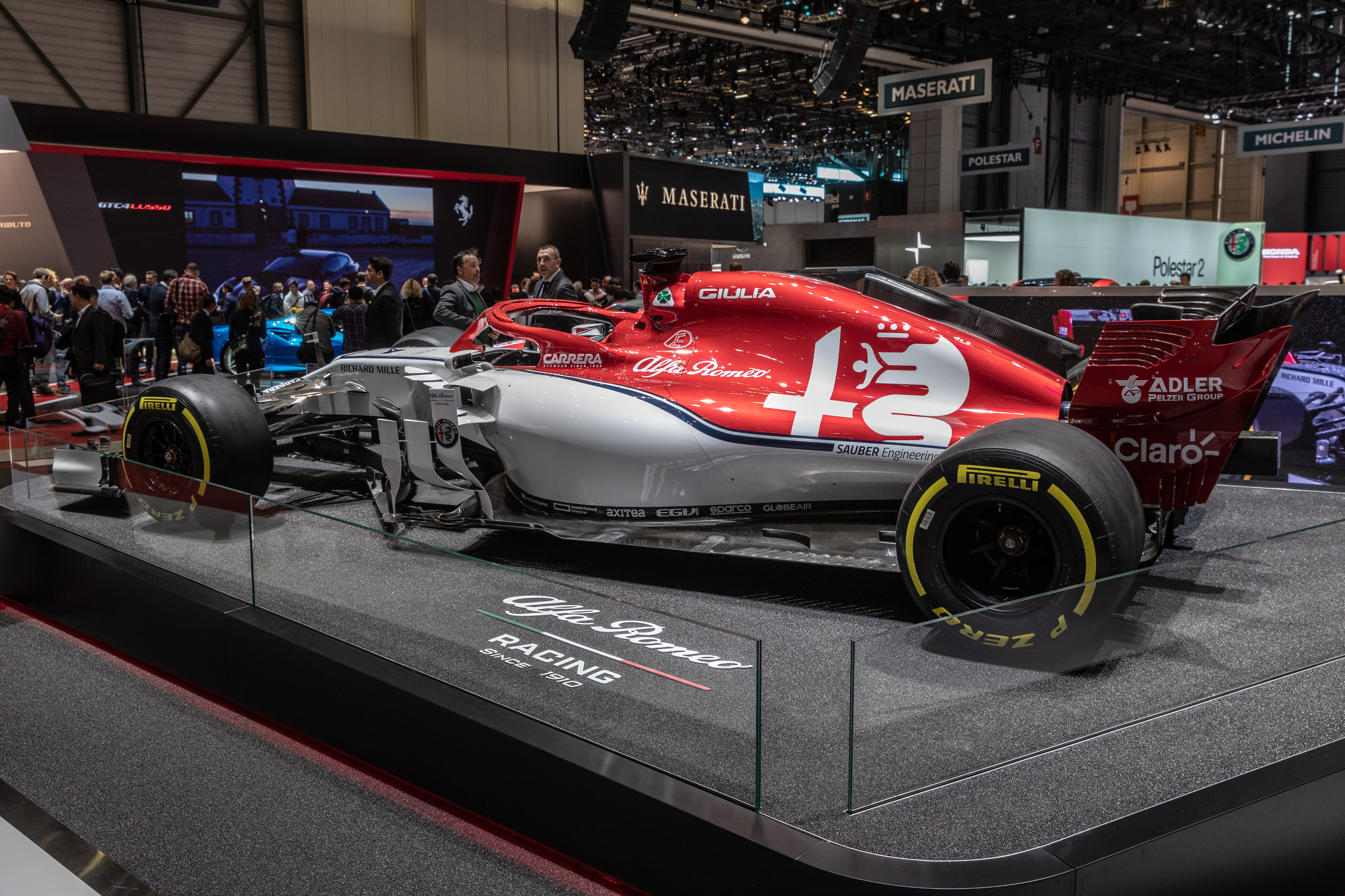 Sauber C37 in Alfa-Romeo livery at Geneva International Motor Show 2019, Le Grand-Saconnex